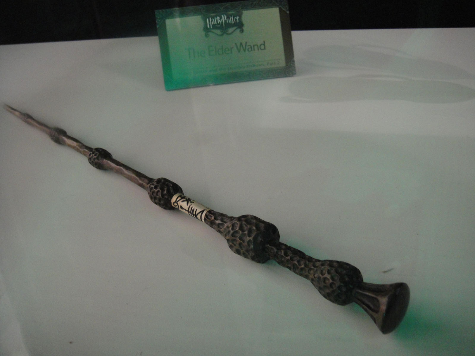 Reprodution of the Elder Wand in Harry Potter Warner Bros. films